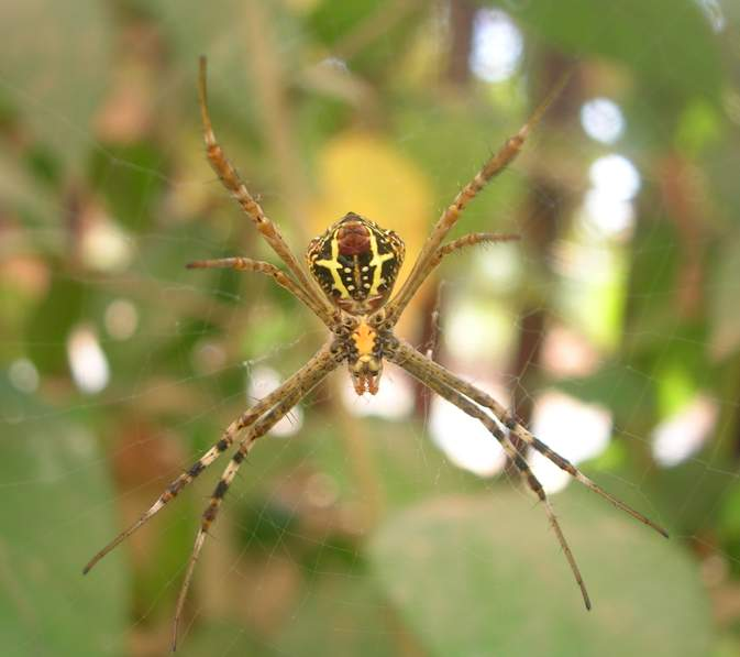 Argiope pulchella from below; Bangalore January 2006 Photograph by L. Shyamal